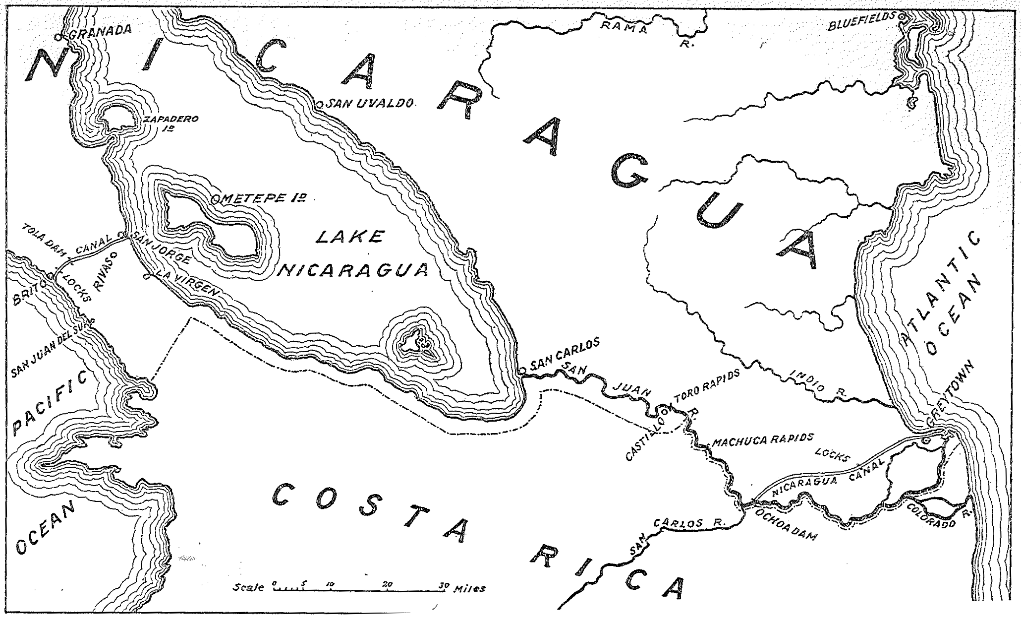 Map, facing page 27, of the proposed line of the Nicaragua Canal, as discussed in the book.